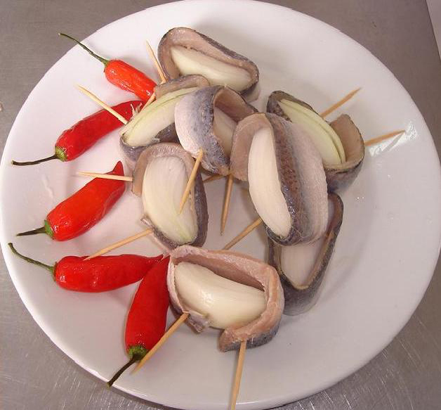 Rollmops